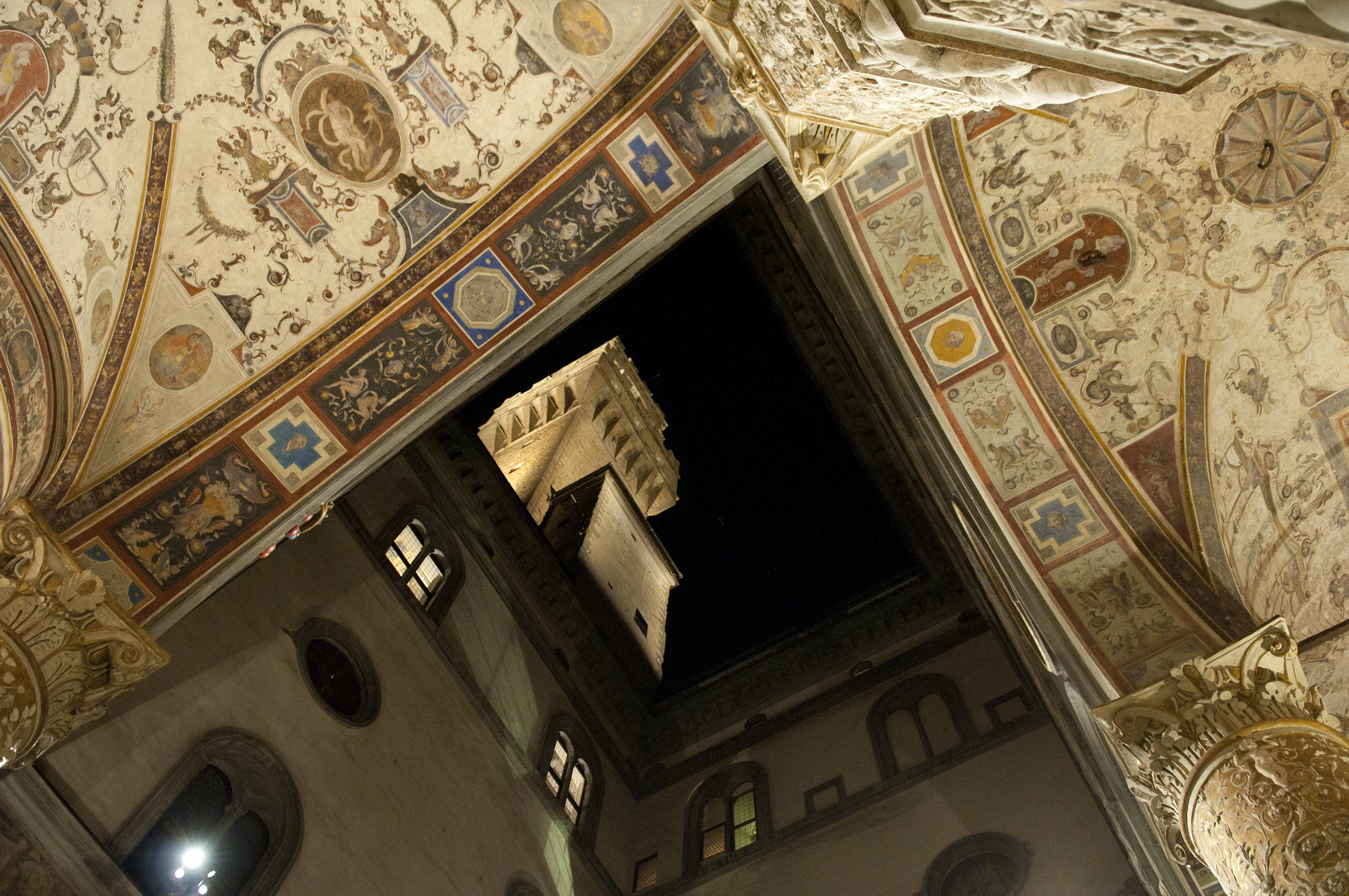 Inside of the Palazzo Vecchio, Florence